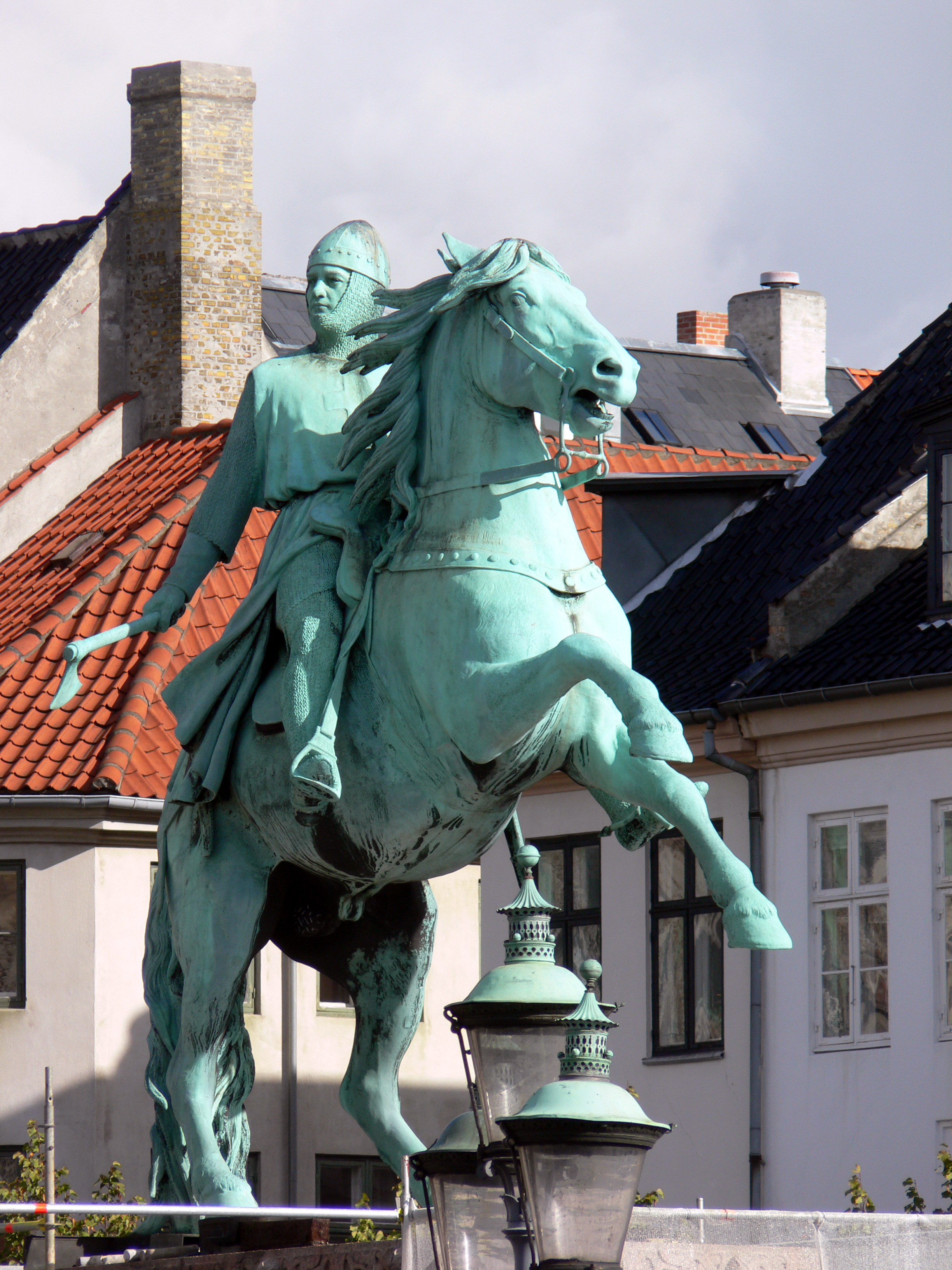 Bischof Absalon am Højbropladsen